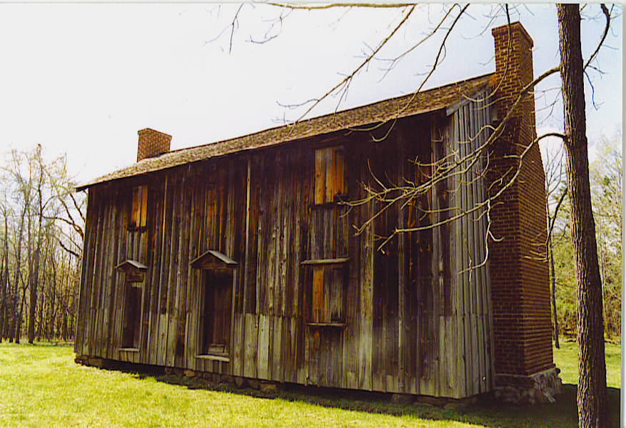 Horton Grove slave quarters built circa 1850, sharecroppers' dwelling until the 1970s, in Durham County, North Carolina. It served the Stagville Plantation and adjacent ones of same and subsequent owners. The property is listed on the National Register of Historic Places.